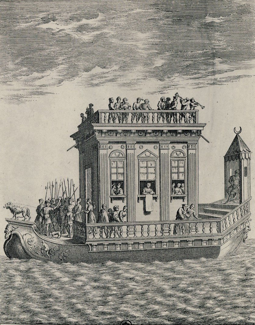 Engraving of a floating castle, used in Henry II of France's entry into Lyon in 1548. Département des Estampes, Bibliothèque Nationale, Paris. The poop deck was fitted with a throne, under Henry's emblem of a crescent moon. Henry and his queen, Catherine de' Medici, ate a meal in the "magnificent room" (salle magnifique) at the vessel's centre, after a table laden with food rose through a trapdoor.